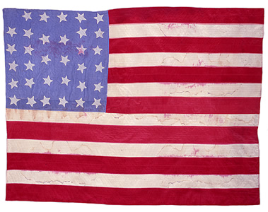 Company H, 27th Regiment NY Volunteer Infantry National Color 55 1/2” hoist x 73 3/4” fly